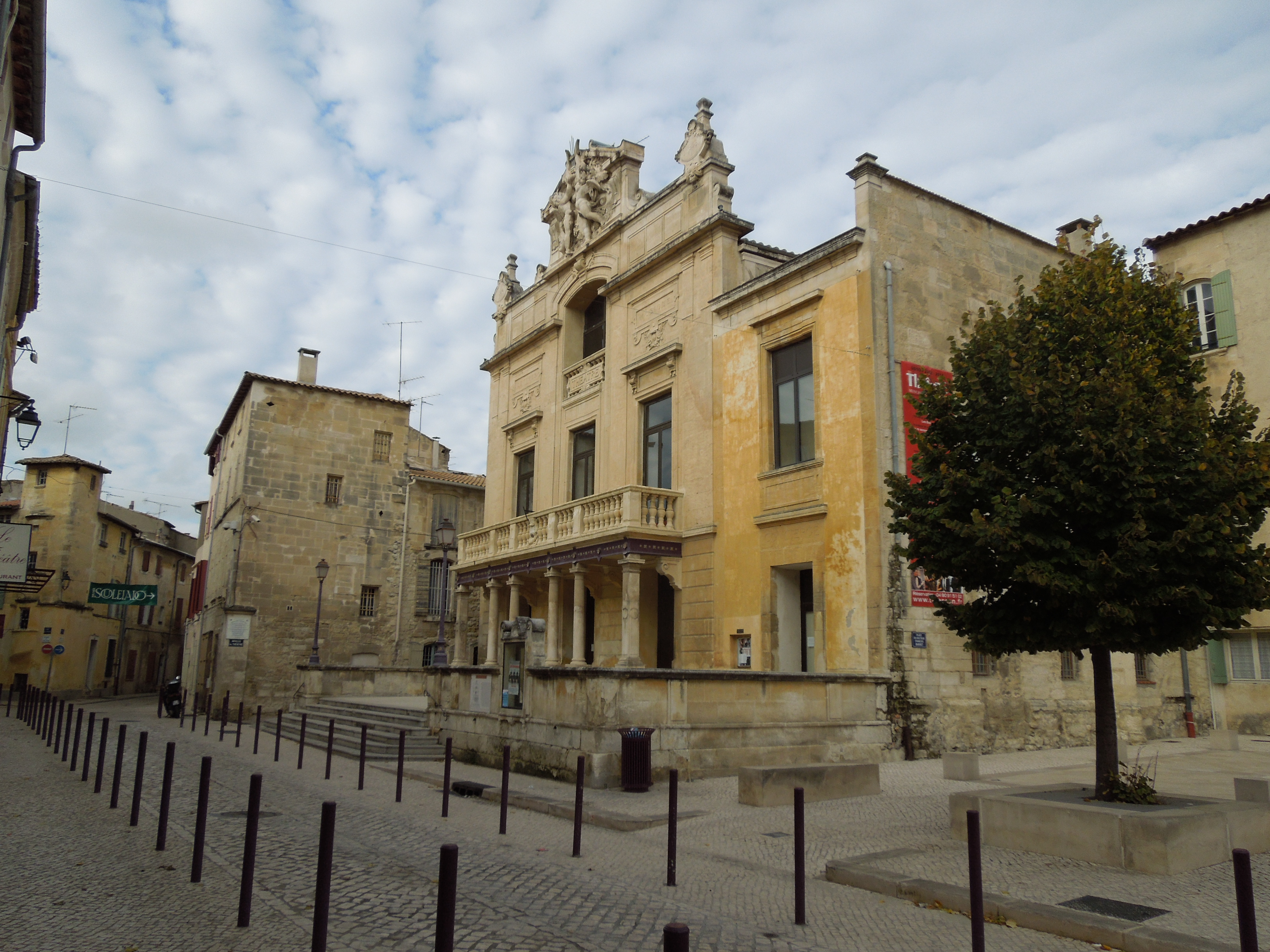 Facade of Théâtre de Tarascon